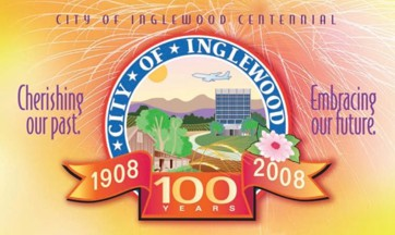 A ceremonial flag for Inglewood, California.